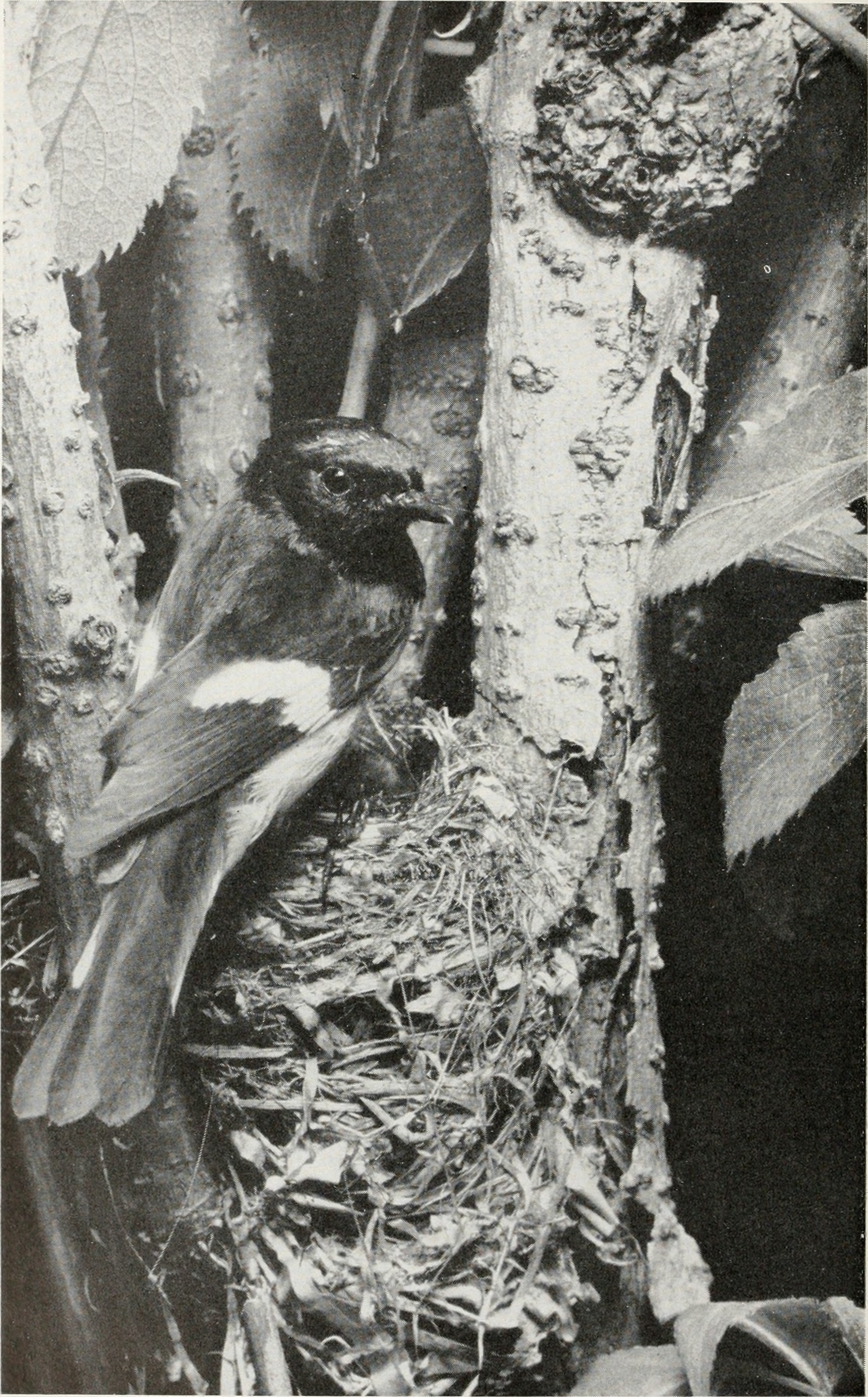 Title: Bulletin - United States National Museum Year: 1877 (1870s) Authors: United States National Museum; Smithsonian Institution; United States. Dept. of the Interior Subjects: Science Publisher: Washington : Smithsonian Institution Press, (etc. ); for sale by the Supt. of Docs. , U. S. Govt Print. Off. Text Appearing Before Image: U. S. NATIONAL MUSEUM BULLETIN 203 PLATE 82 Text Appearing After Image: Maine, June 194S Eliot Porter SOUTHERN AMERICAN REDSTART. MALE